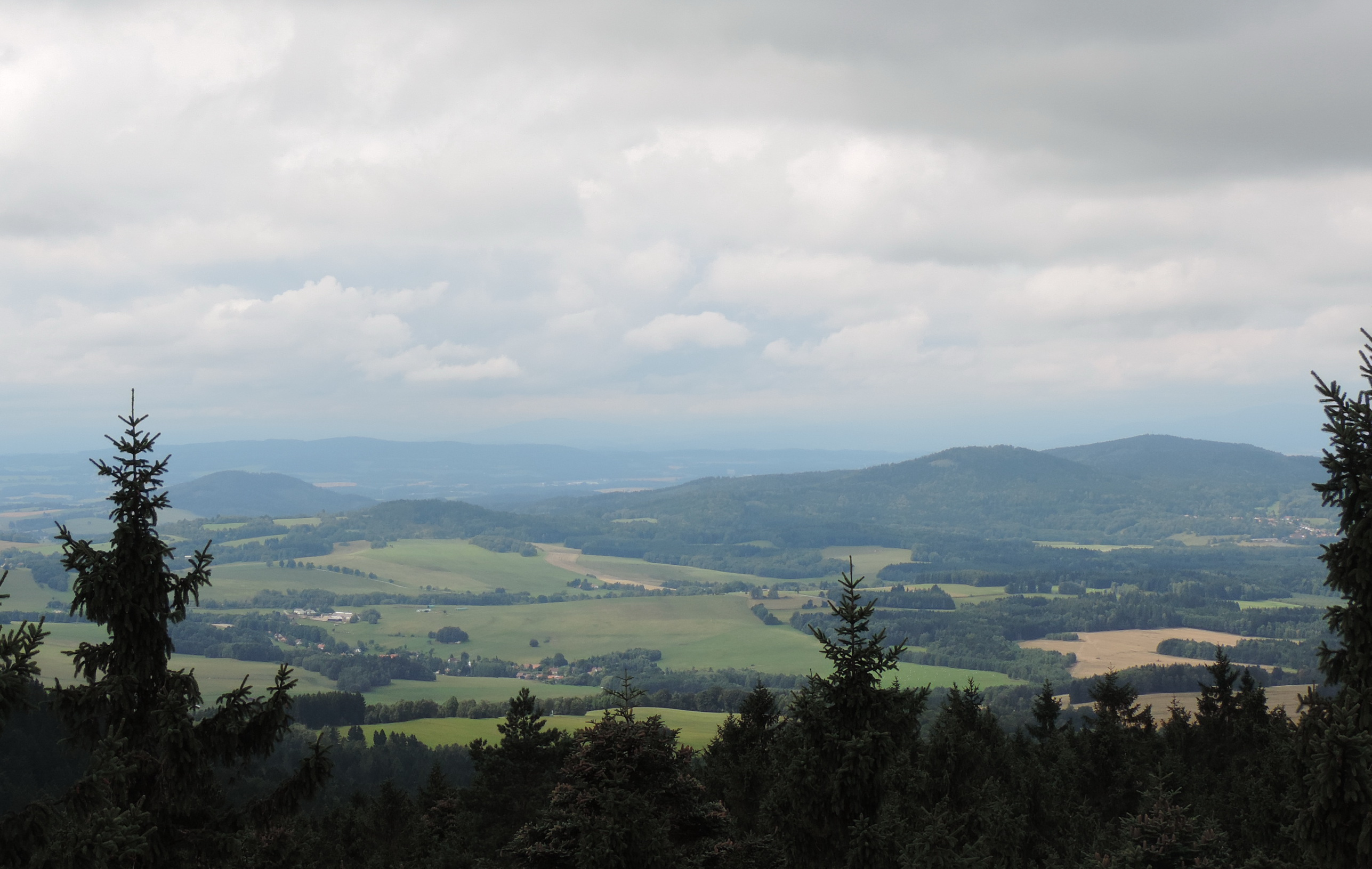 View of Slepičí hory (Hen mountains) from Kraví hora in Novohradské hory (Gratzener Bergland). South Bohemia, the Czech republic.